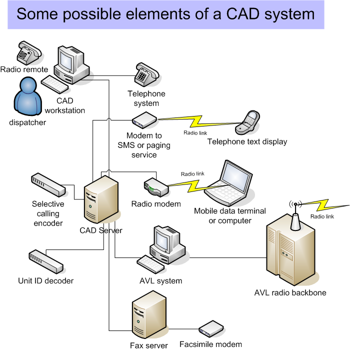 Diagram for CAD article.